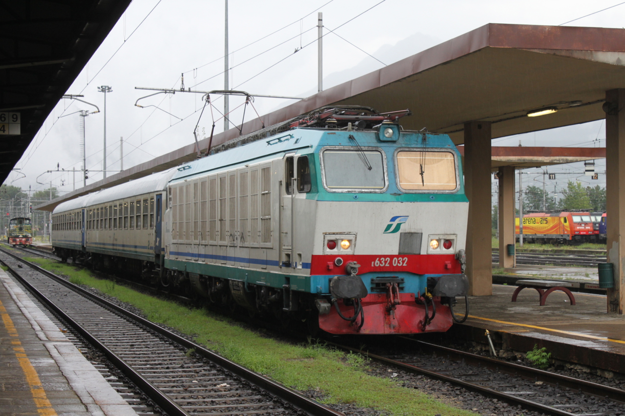 FS E.632.032 ready to leave Domodossola station ahead of a regional train to Novara.